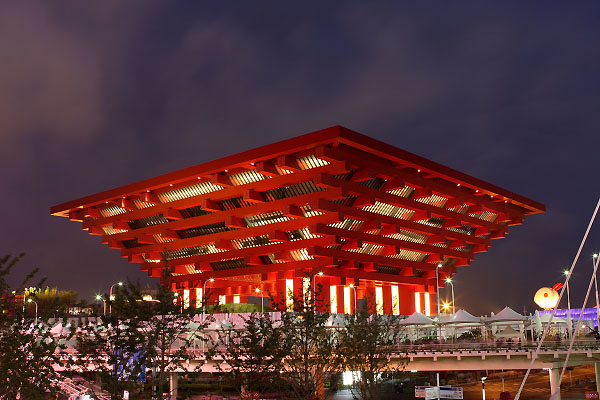 Expo 2010, Shanghai